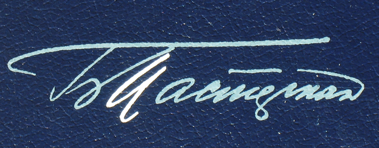 Boris Pasternak signature on his book.